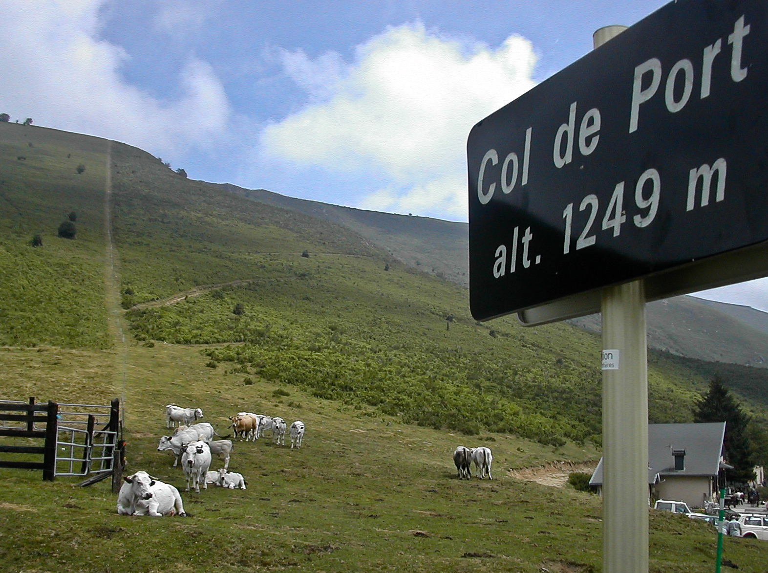 Cows grazing at col de Port. Col de Port is a mountain pass in the French Pyrenees located in the Ariège department.